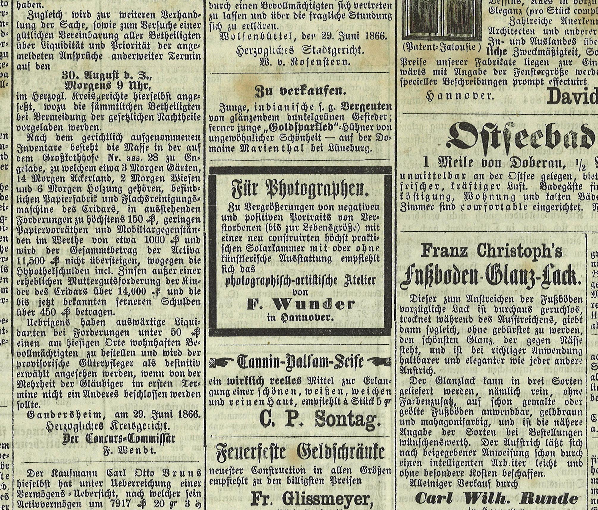 Friedrich Karl Wunder